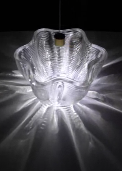 Crop of File:G3DP glass bowl.png